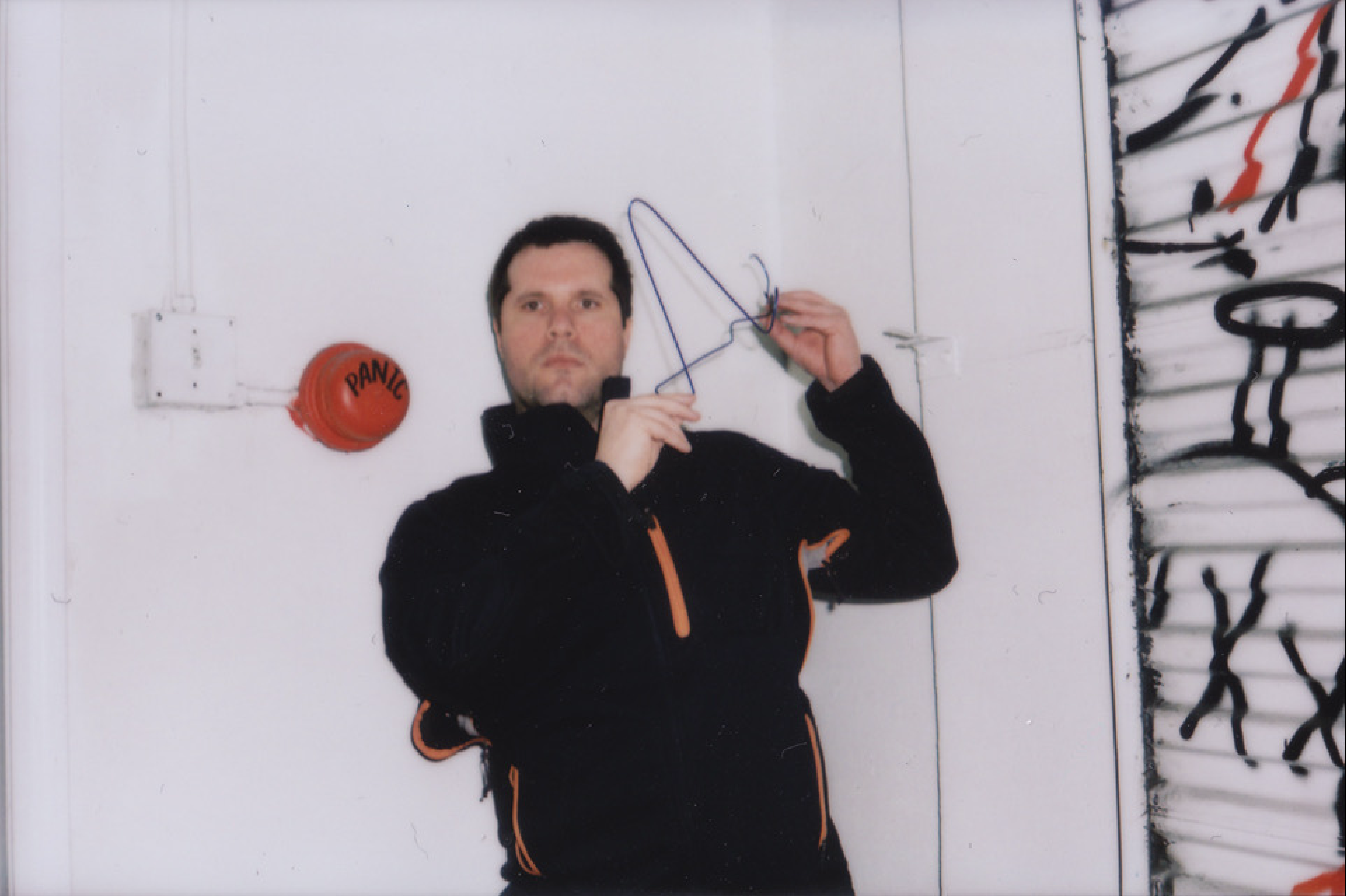 Artist XVALA photographed with his sculpture "Mark Zuckerberg’s Not Very Well Hung Hanger," from his Dumpster Diving Series, at the headquarter's of The Site Unscene (TSUS) in downtown Los Angeles, CA, 2012. Photo by Quam Odunsi.